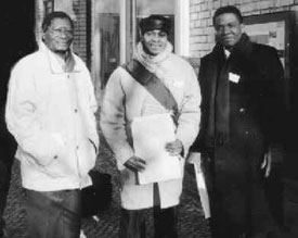 Photo: The late Mahoma Mwaungulu (Tanzania), Ian Douglas (Barbados) and Dr. Moses Mensah (Ghana), members of the Pan African Forum, meeting in Berlin Germany 1999.